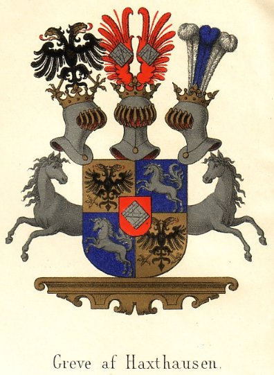 Coat of arms of the comital Haxthausen family